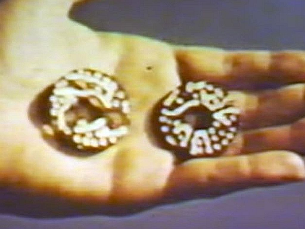 Mass production of printed circuit boards for the Mark 53 proximity fuze 1944.